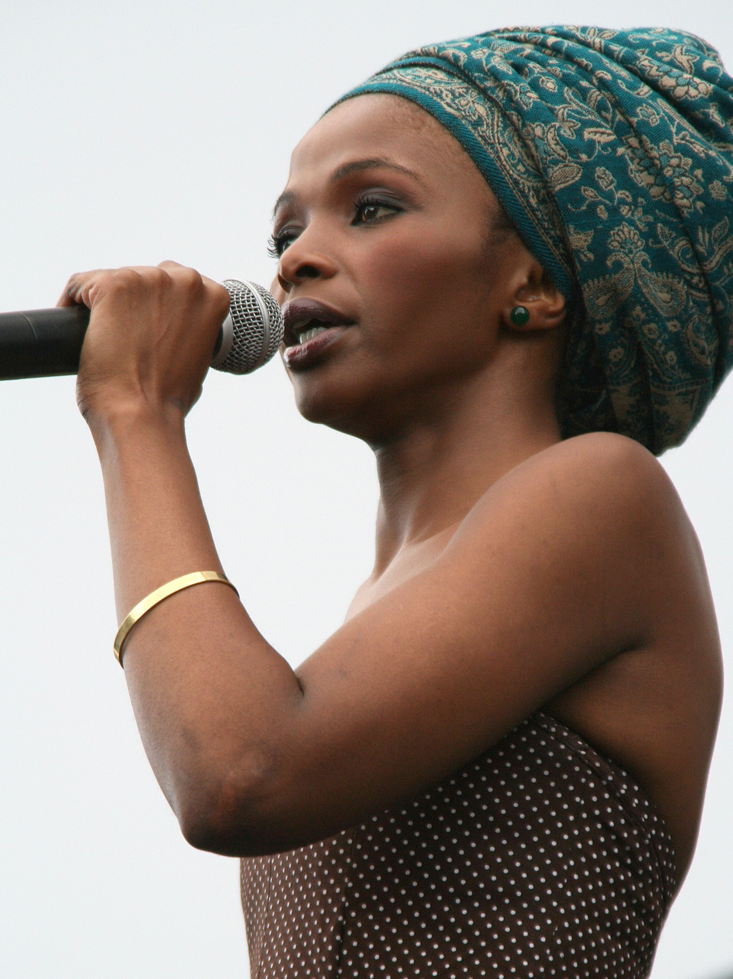 South African singer Simphiwe Dana at the Rathausplatz in Vienna (Jazz-Fest Wien)